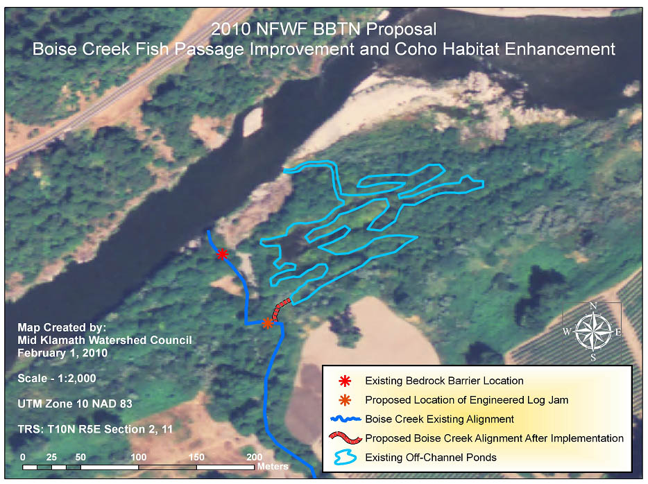 Map of plan to bypass bedrock falls on Boise Creek to create wetlands and bypass the barrier to fish passage.